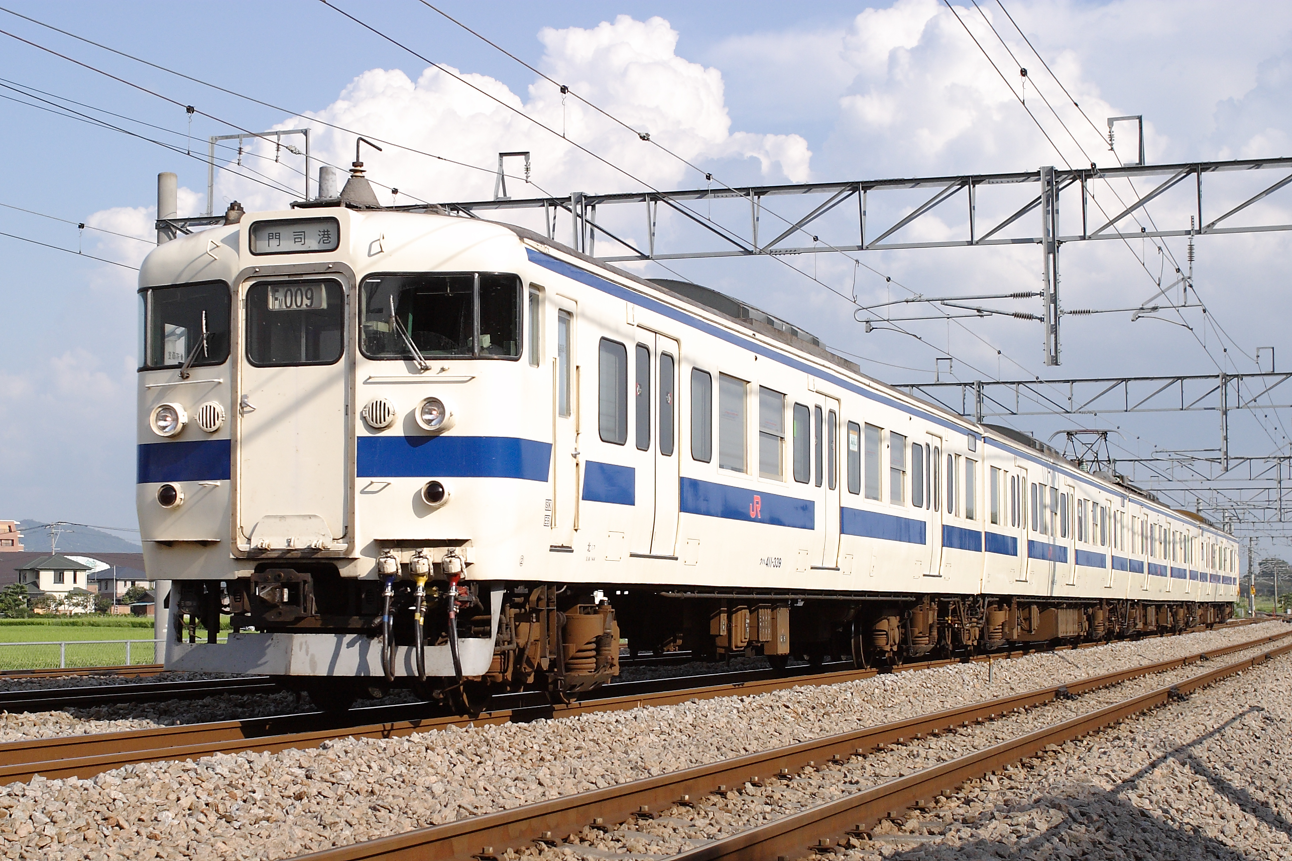 JNR 415-0 - JR Kyushu - FM9 - Kagoshima Main Line - Dazaifu